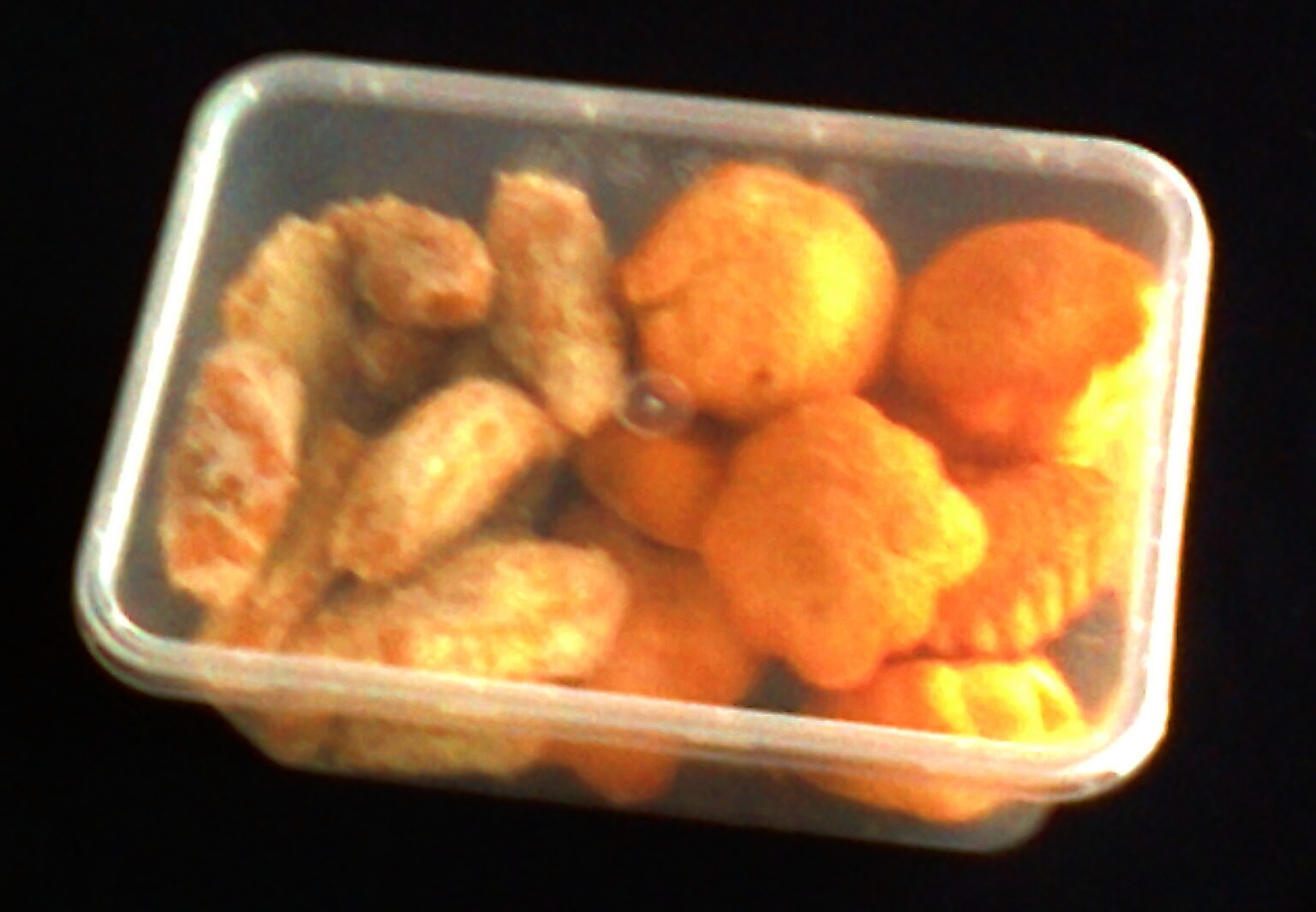 Kuih lidah and Bahulu in a container.